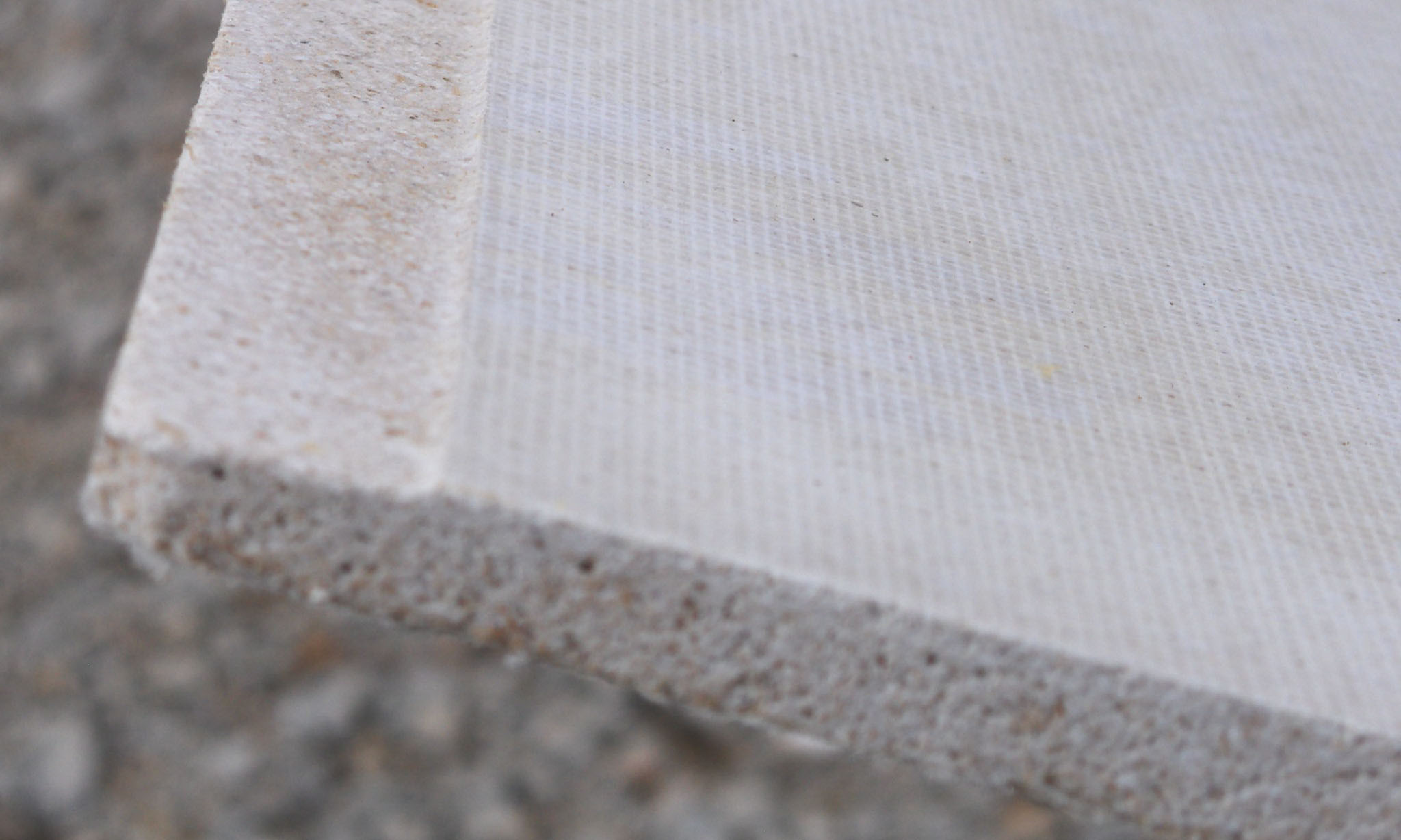 Photo of magnesium oxide wallboard that shows the thickness and texture.